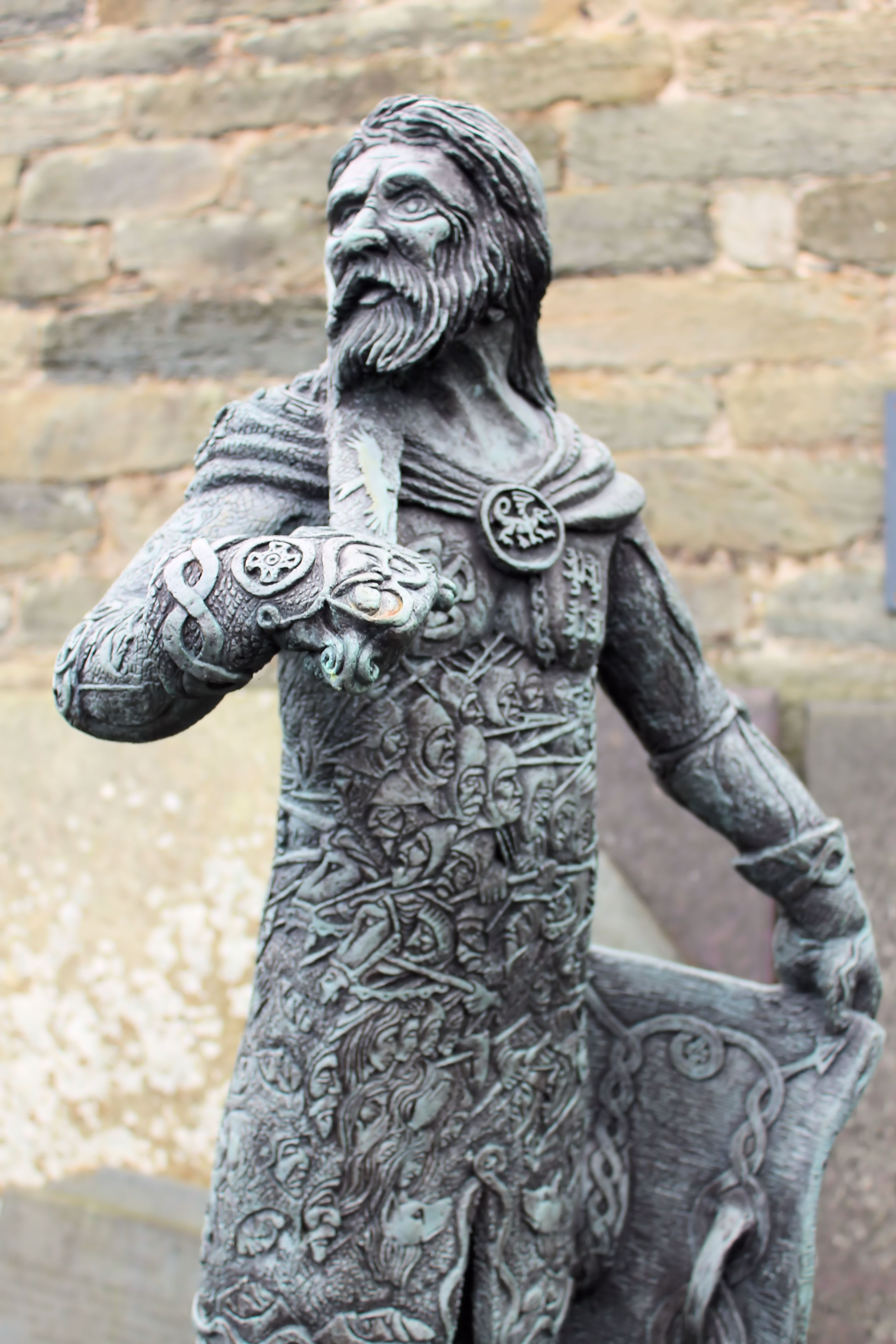 The village of Pennal, Gwynedd, North Wales. St Tannwg and St Eithrias Church. Royal Chapel of the Prince Owain Glyndŵr.